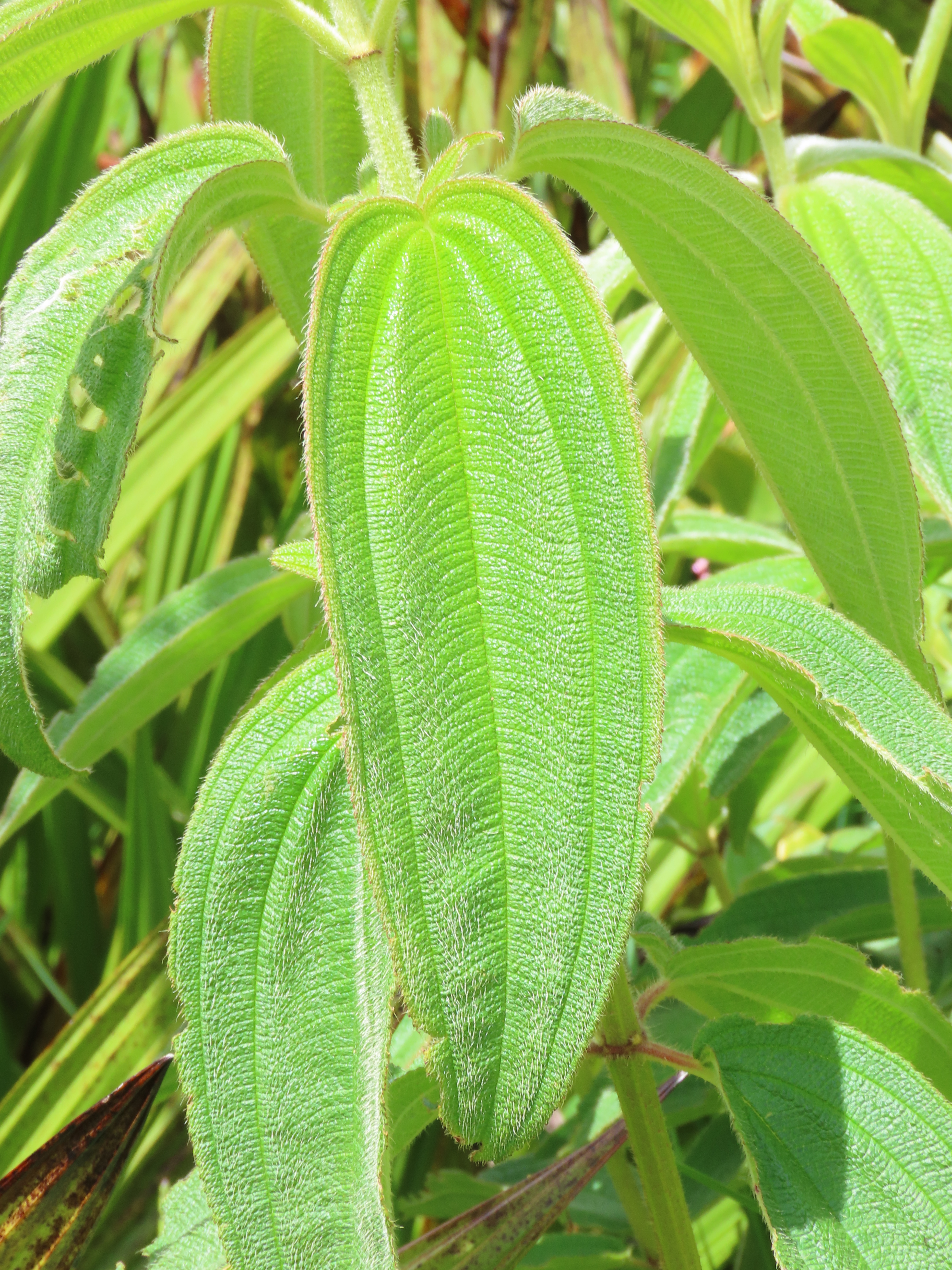 Dissotis princeps leaf venation is typical of the family Melastomataceae.